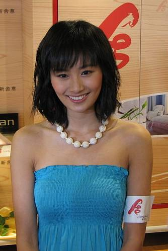 Cropped version of larger image to focus on the subject